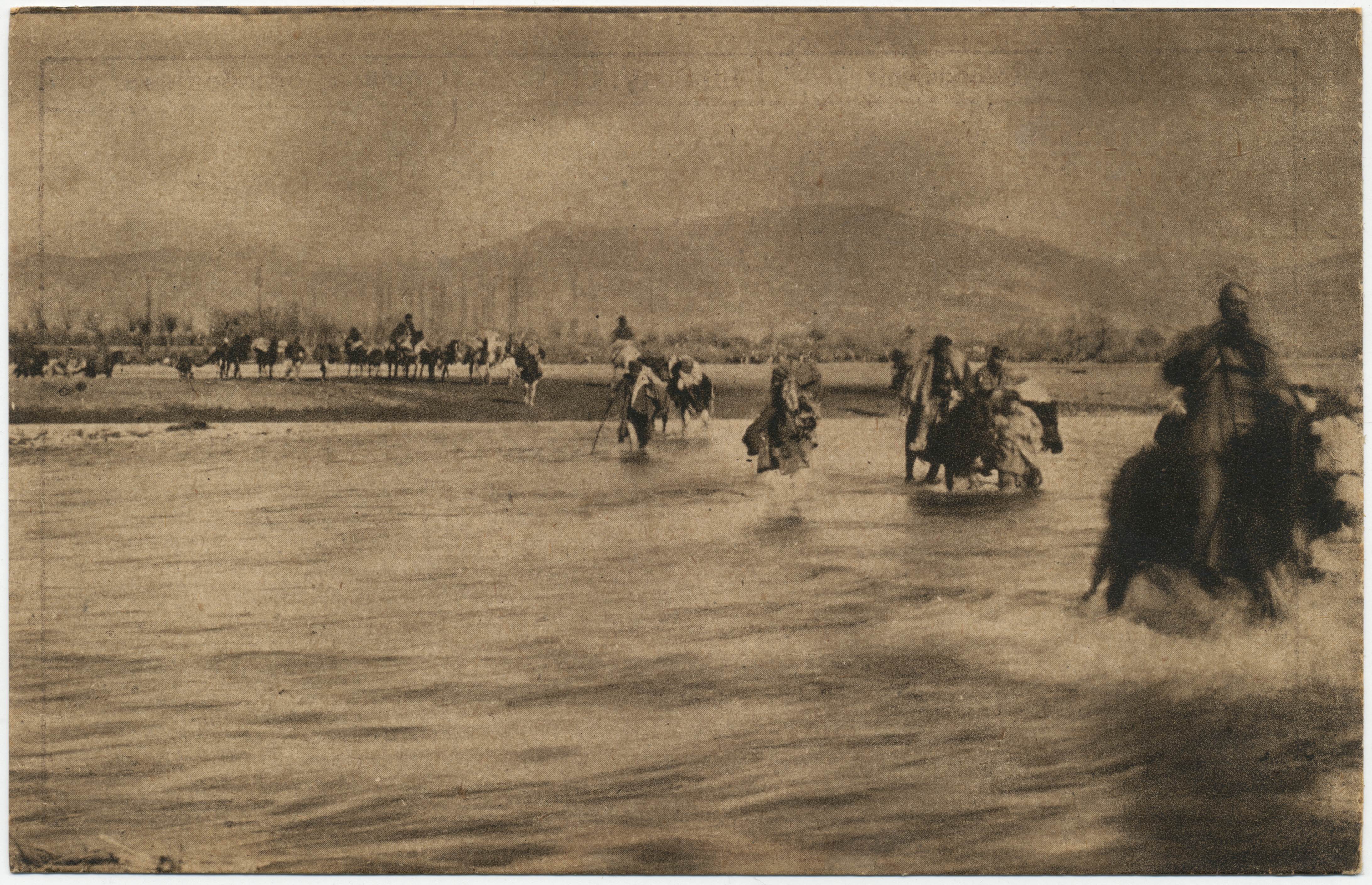 Serbian army crossing Maće river in Albania